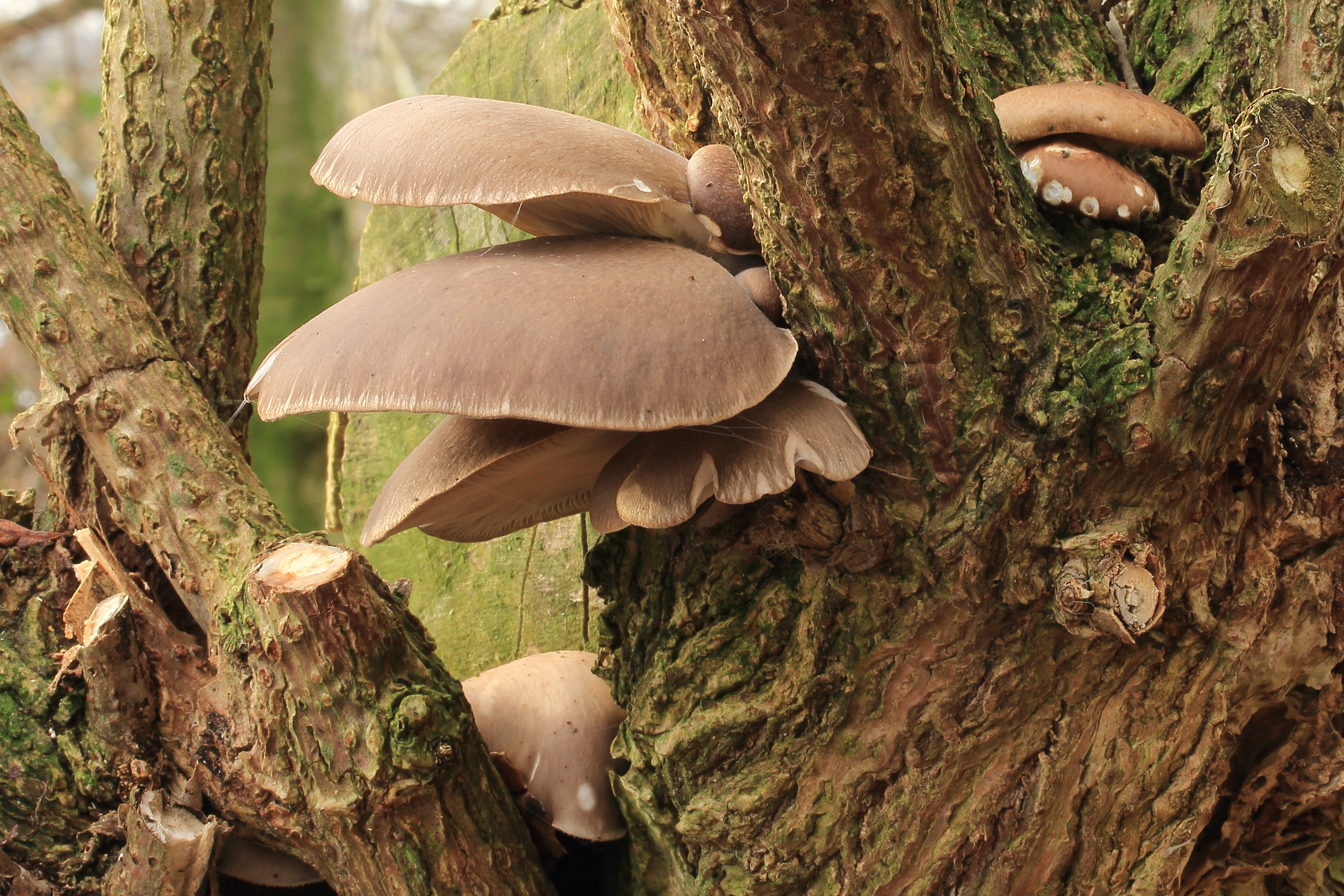 gewone oesterzwam (Pleurotus ostreatus). on an Sambucus nigra.